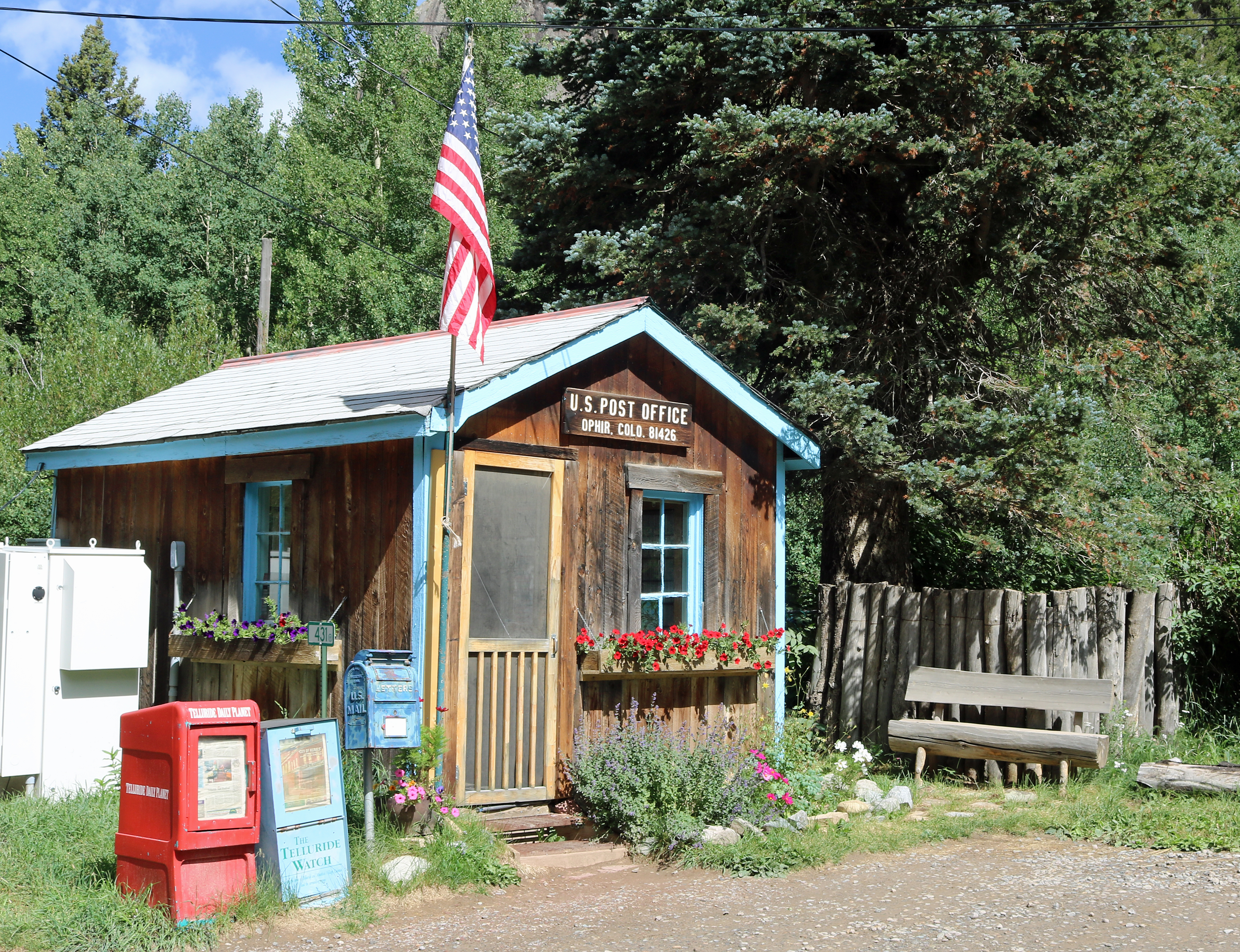 The Ophir Post Office, located at 431 Ophir Road in Ophir, Colorado, 81426.